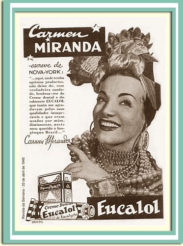 Carmen Miranda for Eucalol.